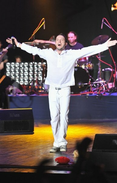 Vukasin Brajic performing during the OT concert in Belgrade